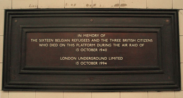 Bounds Green tube, wartime memorial plaque